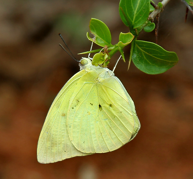 Common Emigrant or Lemon Emigrant Catopsilia pomona in Hyderabad, India.